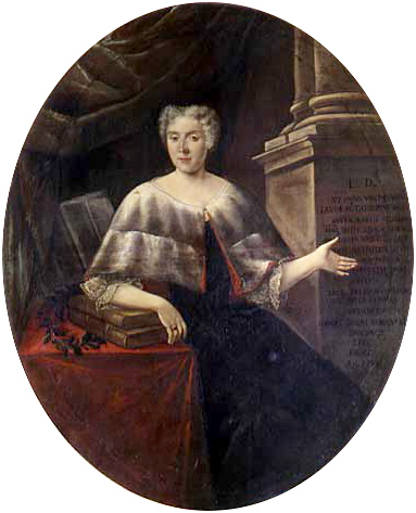 Portrait of Italian mathematician and physicist Laura Bassi (1711-1778) by Carlo Vandi (18th century)